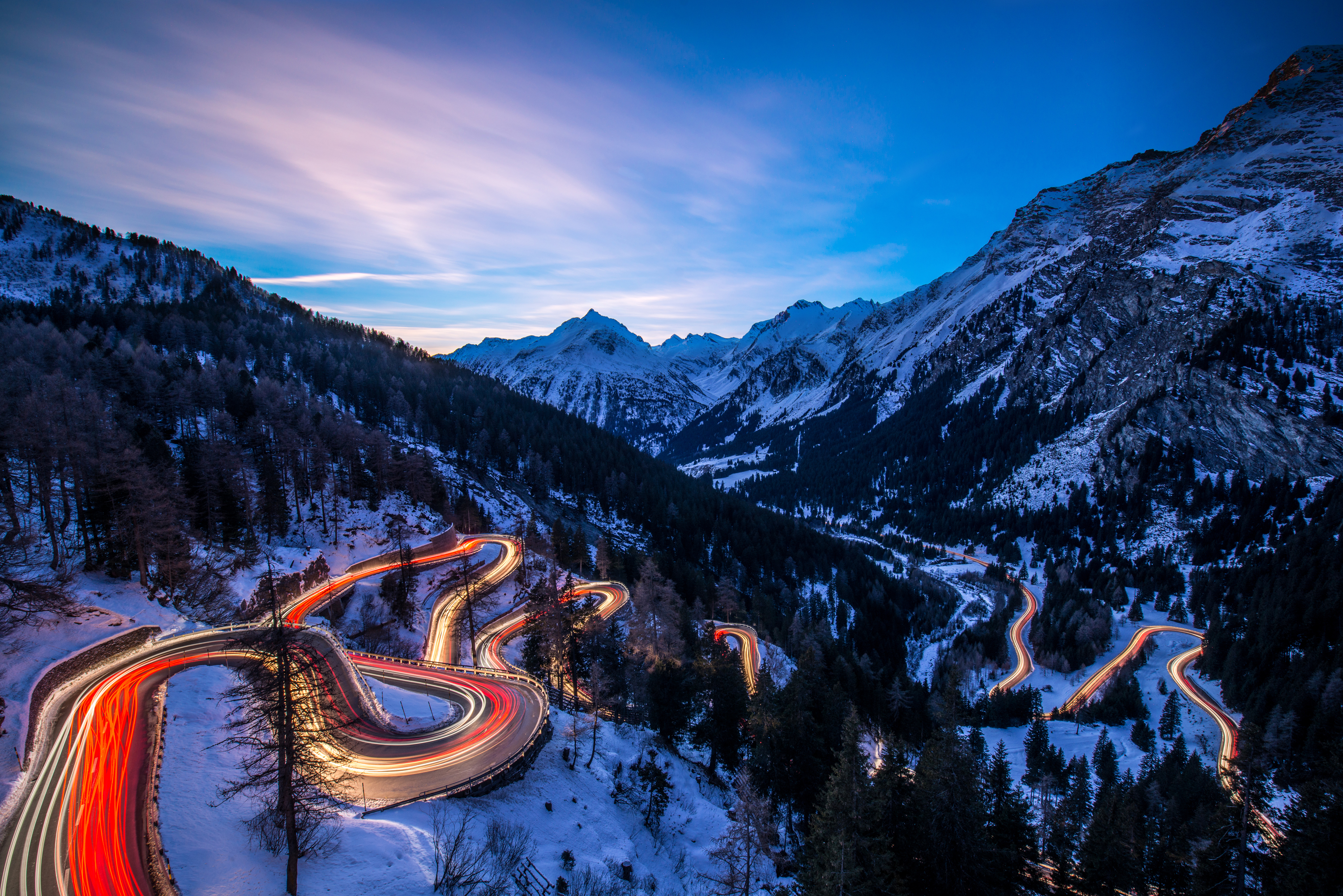 Maloja Pass in the blue hour.